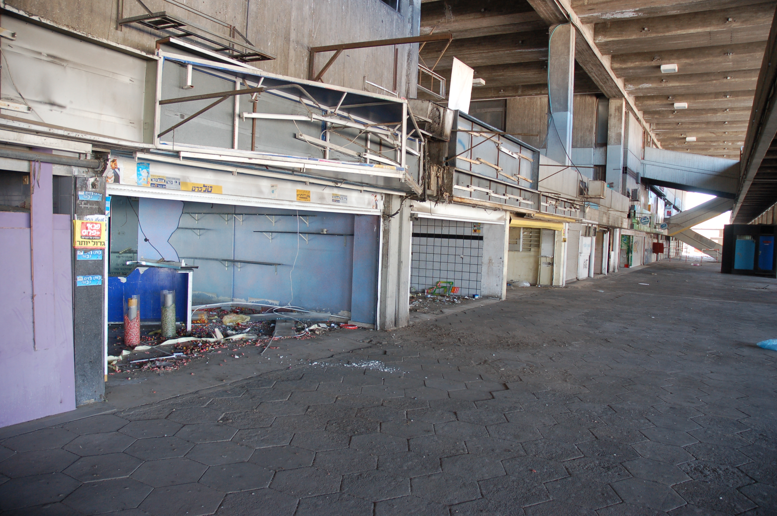 Haifa's Bat Galim central bus station used to be a busy bustling center of activity. Today it is a ghost town.